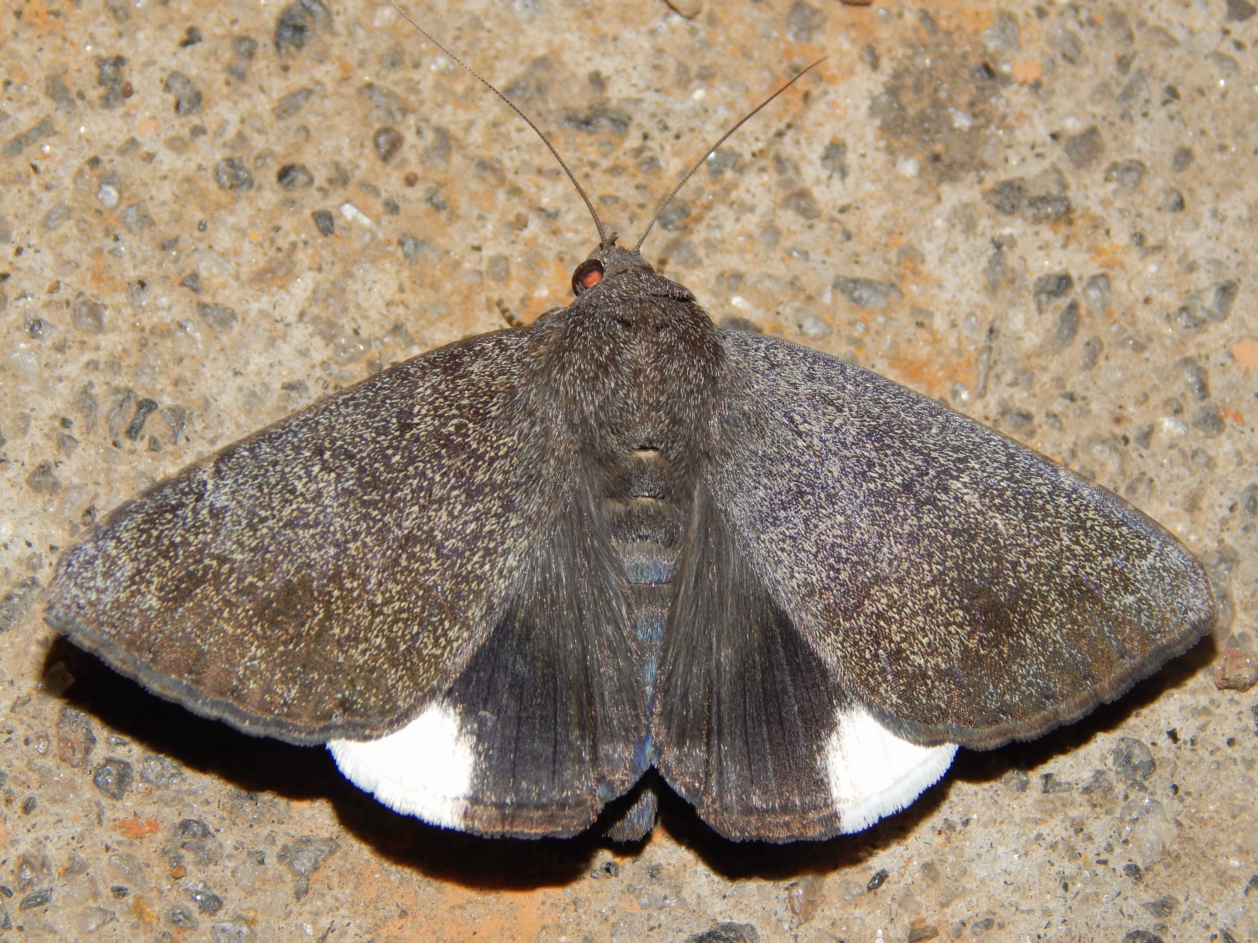 Achaea mezentia from coorg, Western ghats of India